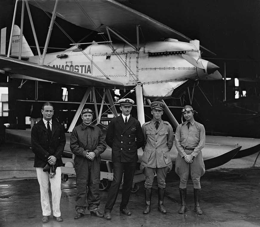 The U.S. Navy Schneider Cup Team on 19 August 1926 in front of the Curtiss F6C-1 Hawk racing plane. The pilot was Lt. William G. Tomlinson (later RAdm, 2nd from left). The Curtiss F6C-1 was powered by a 507 hp Curtiss D12-A engine and achieved a speed of 220.406 km/h during the race but made only the 4th of 4 contenders participating.